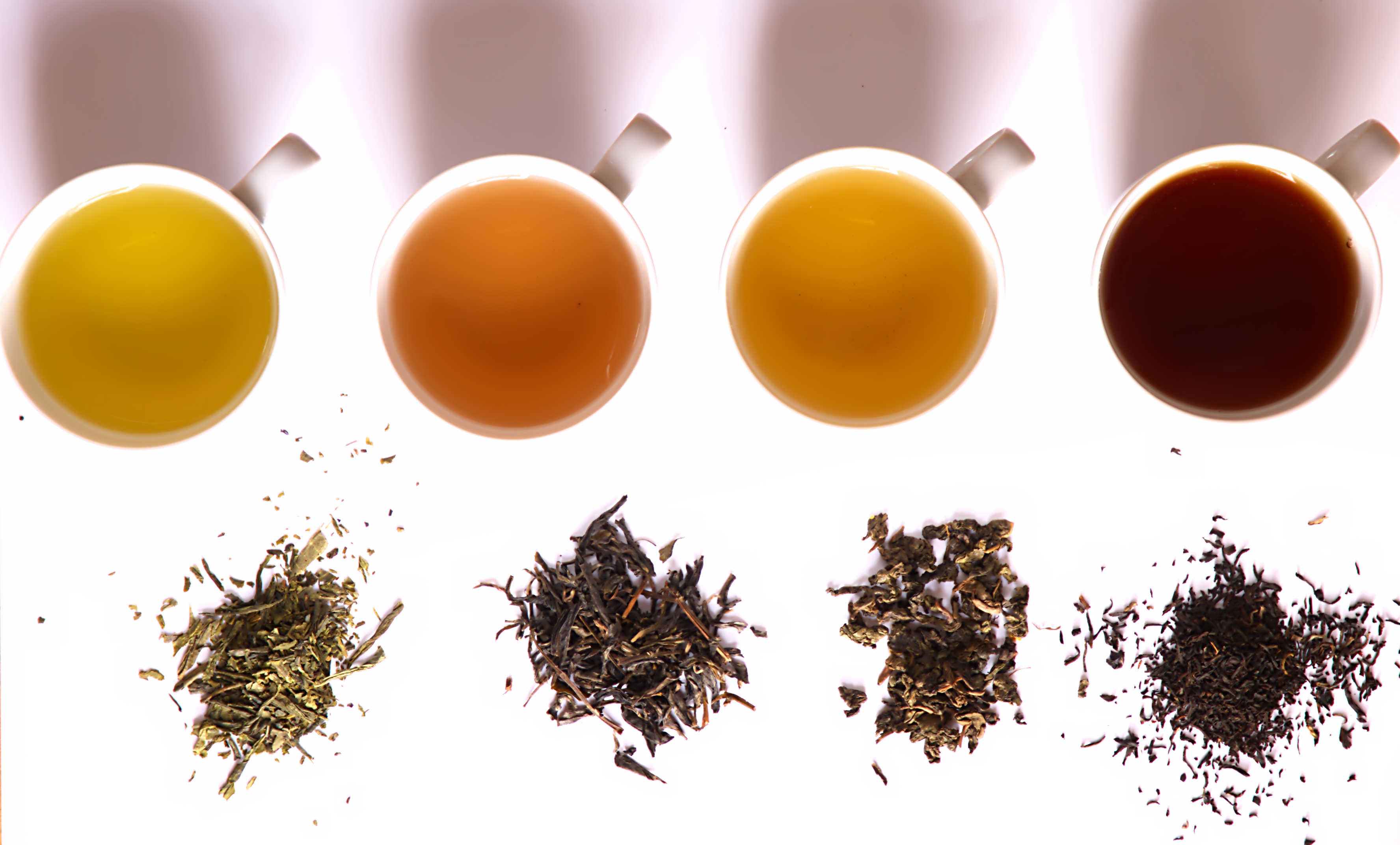 Tea of different fermentation: From left to right: Green tea (Bancha from Japan), Yellow tea (Kekecha from China), Oolong tea (Kwai flower from China) and Black tea (Assam Sonipur Bio FOP from India)